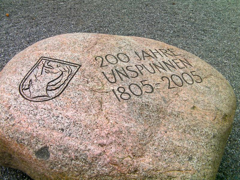 "200 Jahre Unspunnen 1805 - 2005". Celebrates the 200th anniversary of the Unspunnenfest, at which one of the highlights is an 83kg stone throwing contest.